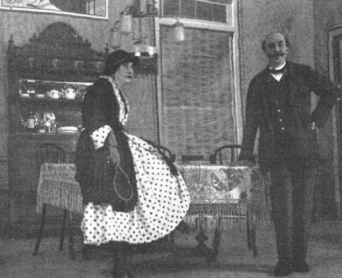 Juan Bonafé y Adela Carbone en una escena del estreno de la obra de teatro El verdugo de Sevilla, de Pedro Muñoz Seca